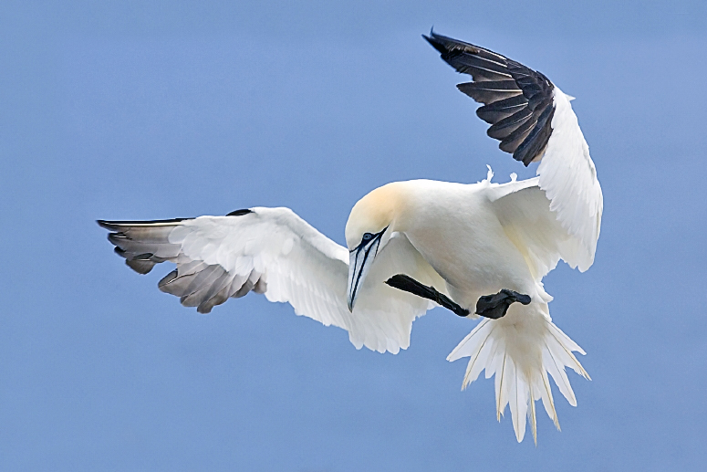 Northern Gannet, Bonaventure Island, Near Perce, Gaspe Peninsula, Quebec